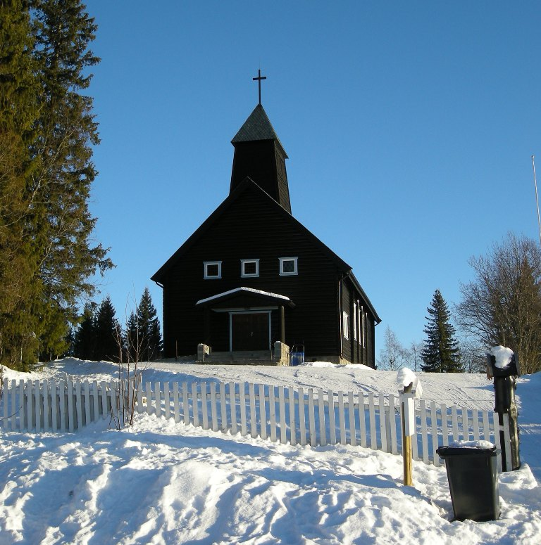 Vølstad church, east of Dokka, Norway